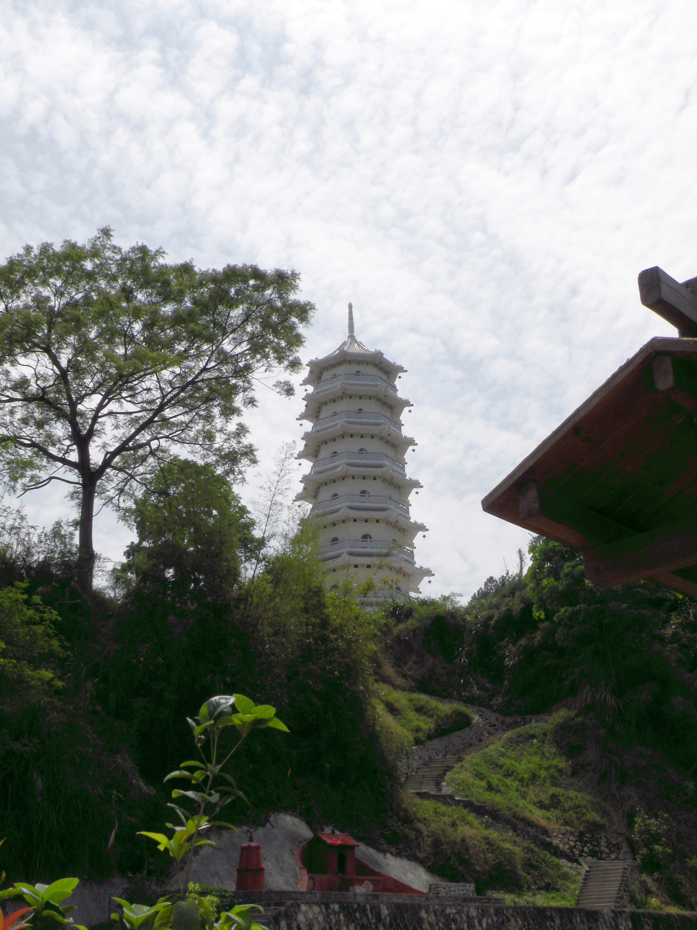 Tiger Pagoda at Haw Par Villa in Fujian Province, China 中文（香港）: 中國福建省虎豹別墅裡的虎塔